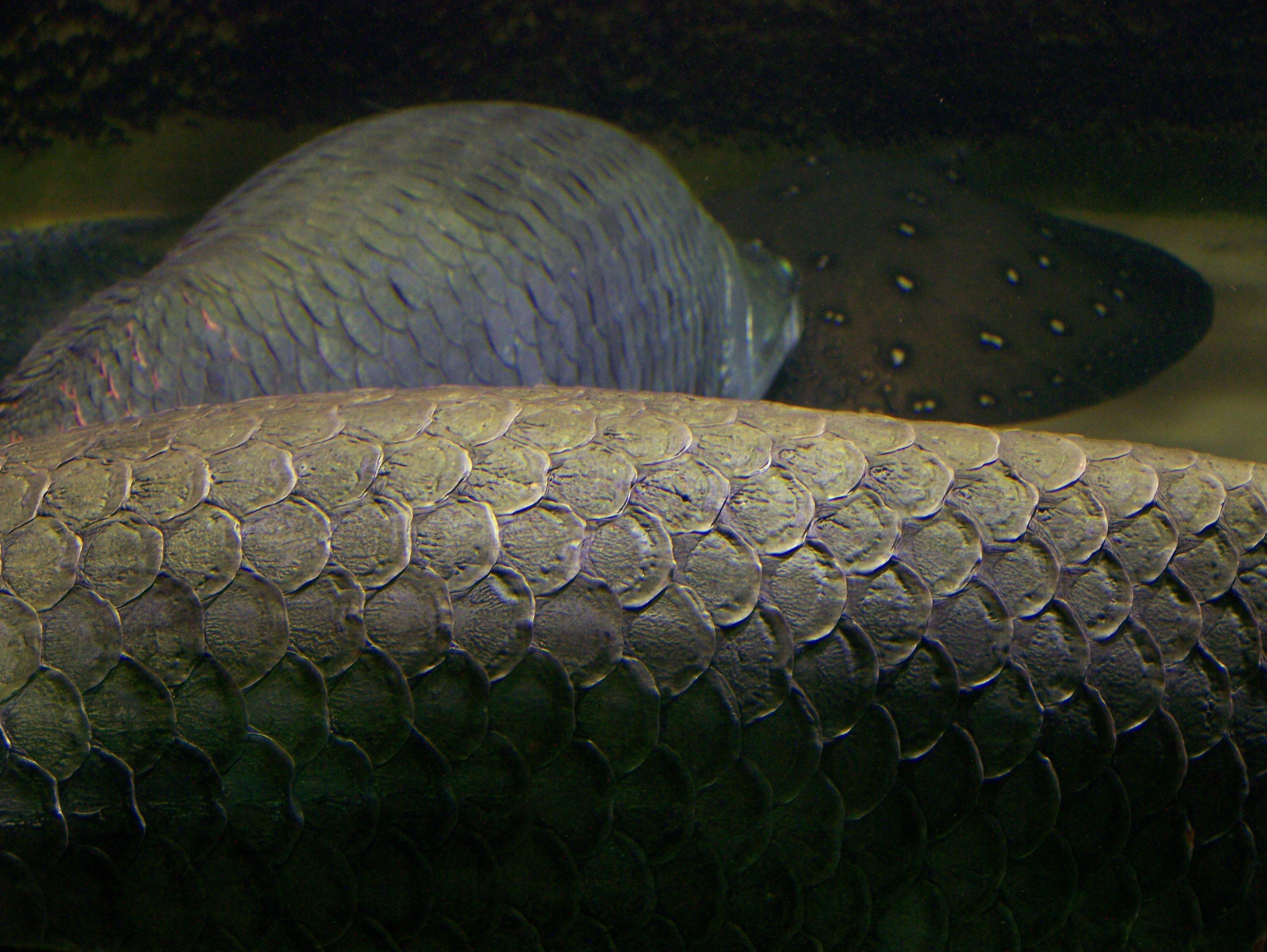 Scales of Arapaima gigas